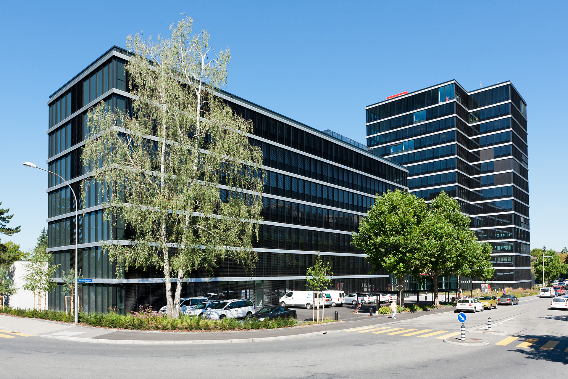 swissinfo.ch headquarters in Bern